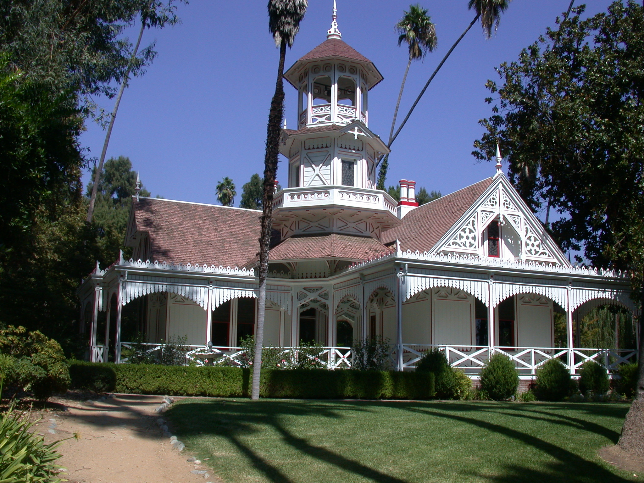 Queen Anne Cottage and Coach Barn, 301 N. Baldwin Ave. Arcadia